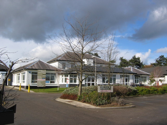 Alfred Bean Hospital, Driffield, East Riding of Yorkshire, England.Within this square along with the hospital is a school, sports centre and housing.